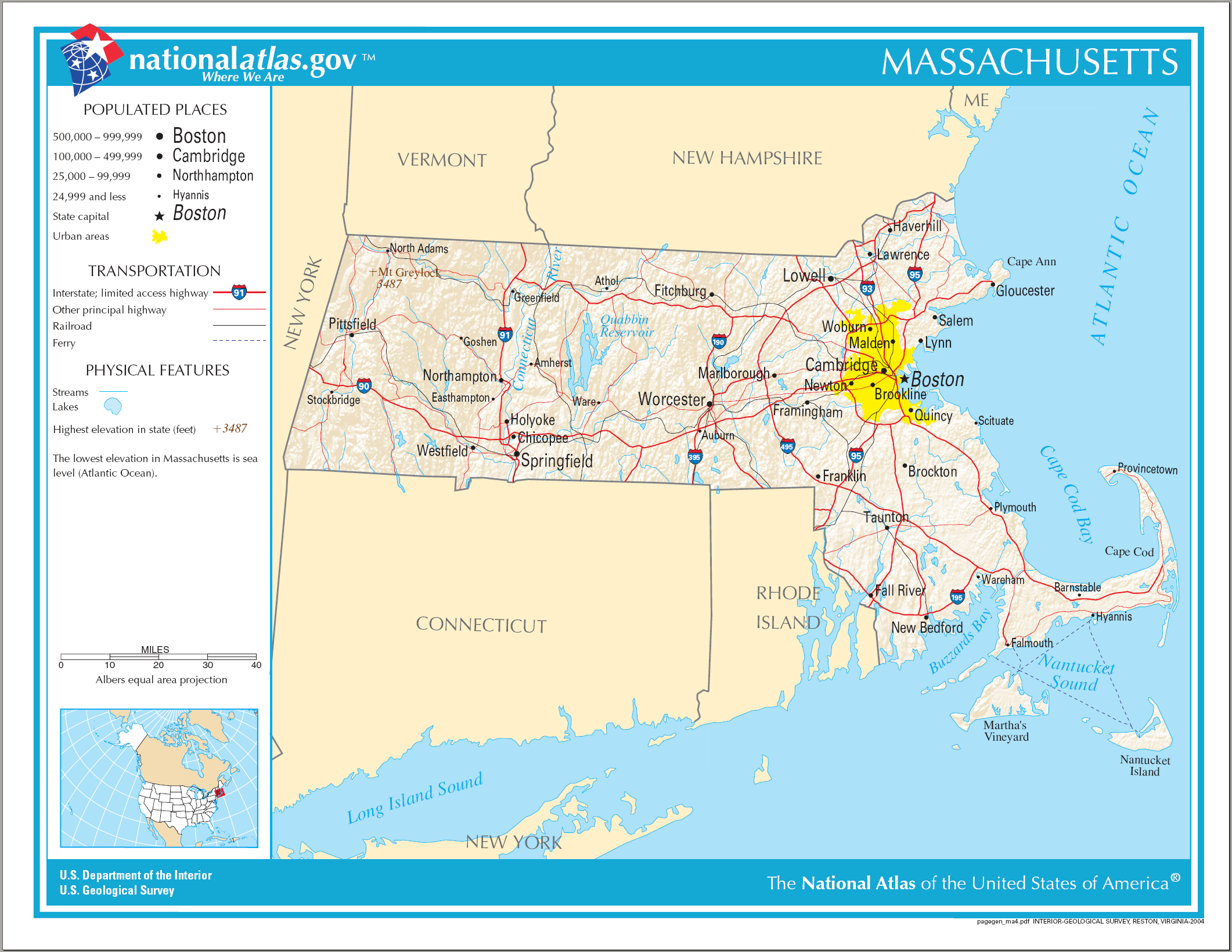 Map of Massachusetts